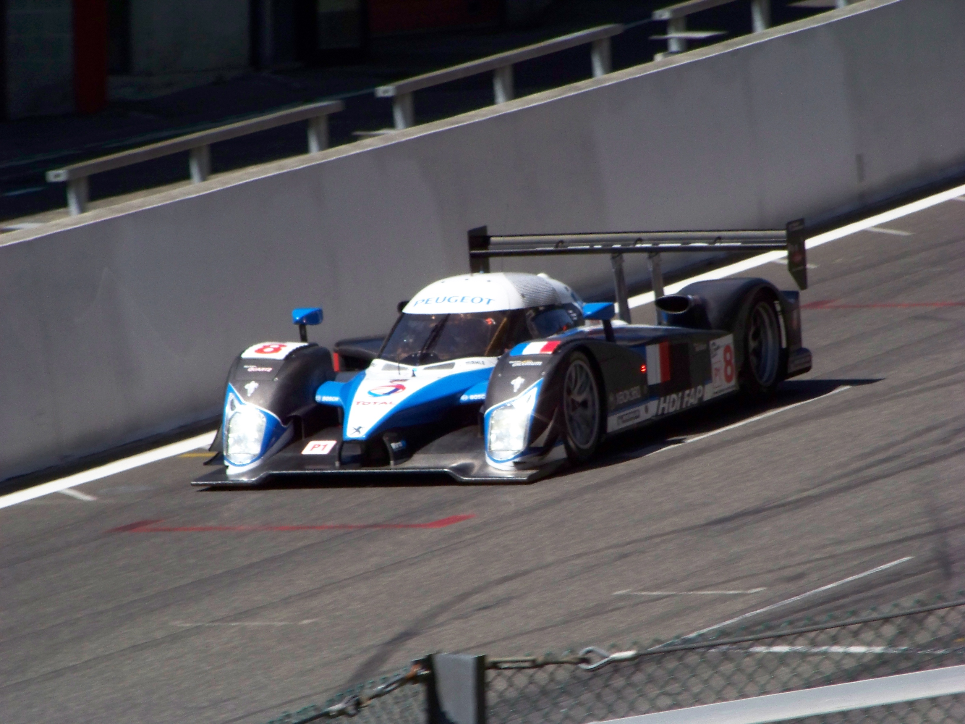 Peugeot Sport Total's Peugeot 908 at the 2008 1000km of Spa.